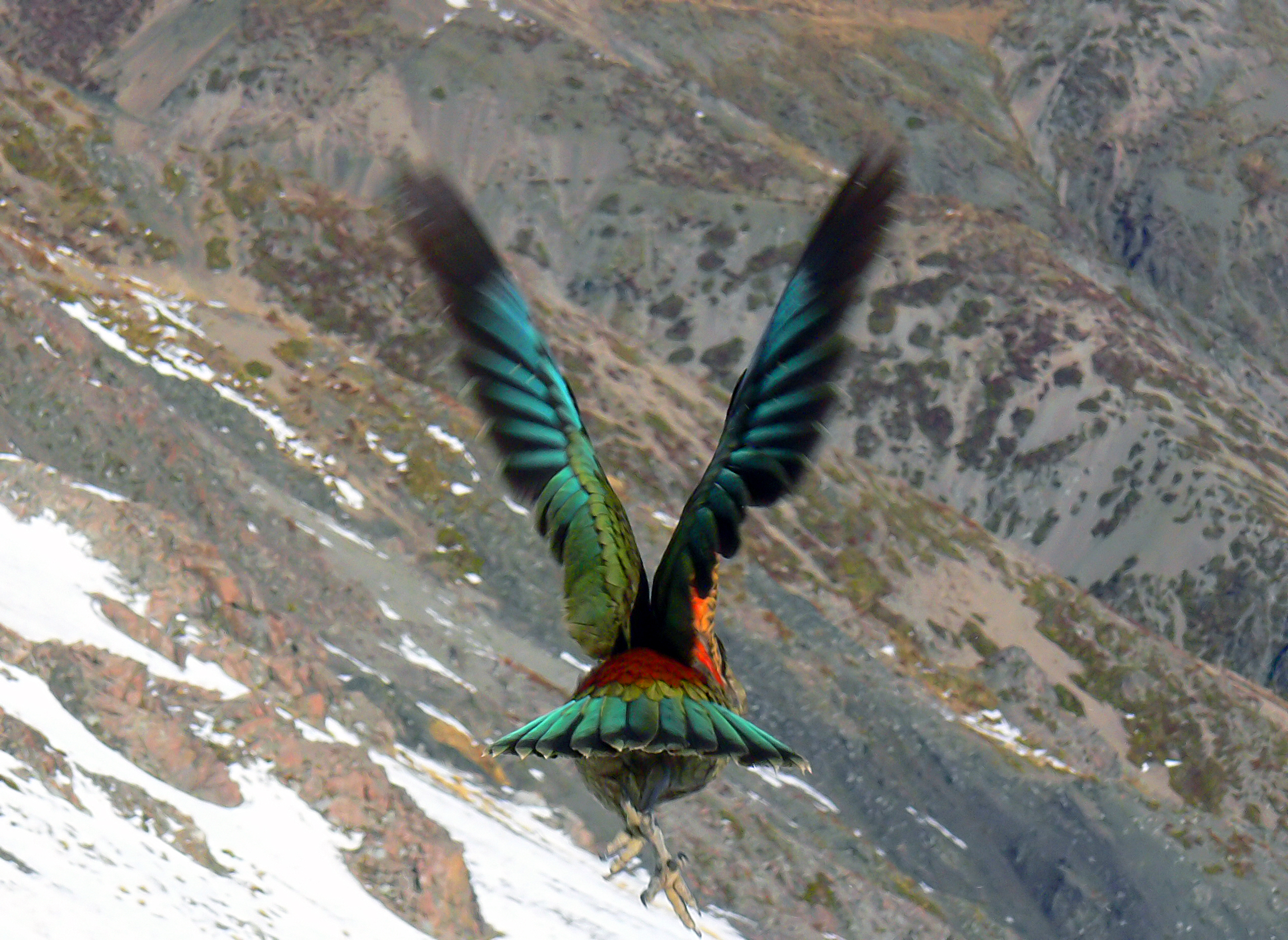 The kea is a large species of parrot of the superfamily Strigopoidea found in forested and alpine regions of the South Island of New Zealand.